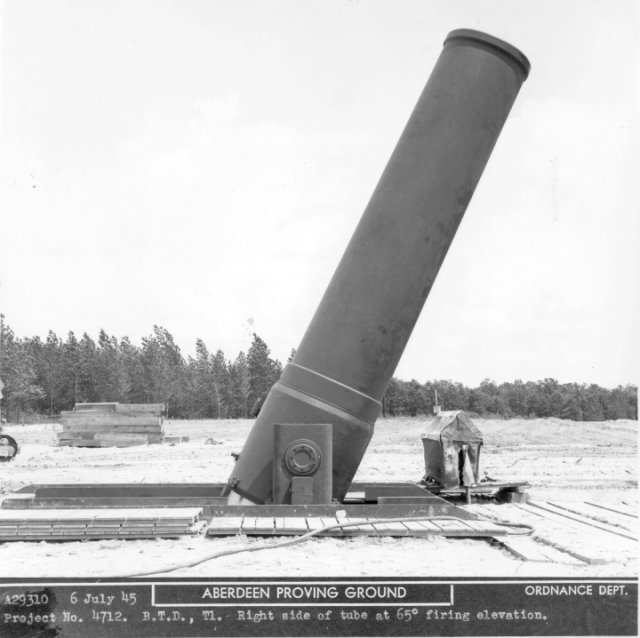 This image is of a 36 inch mortar in use by the USA during World War II for test firing bombs. Later converted to be used as a siege mortar but never used in combat.